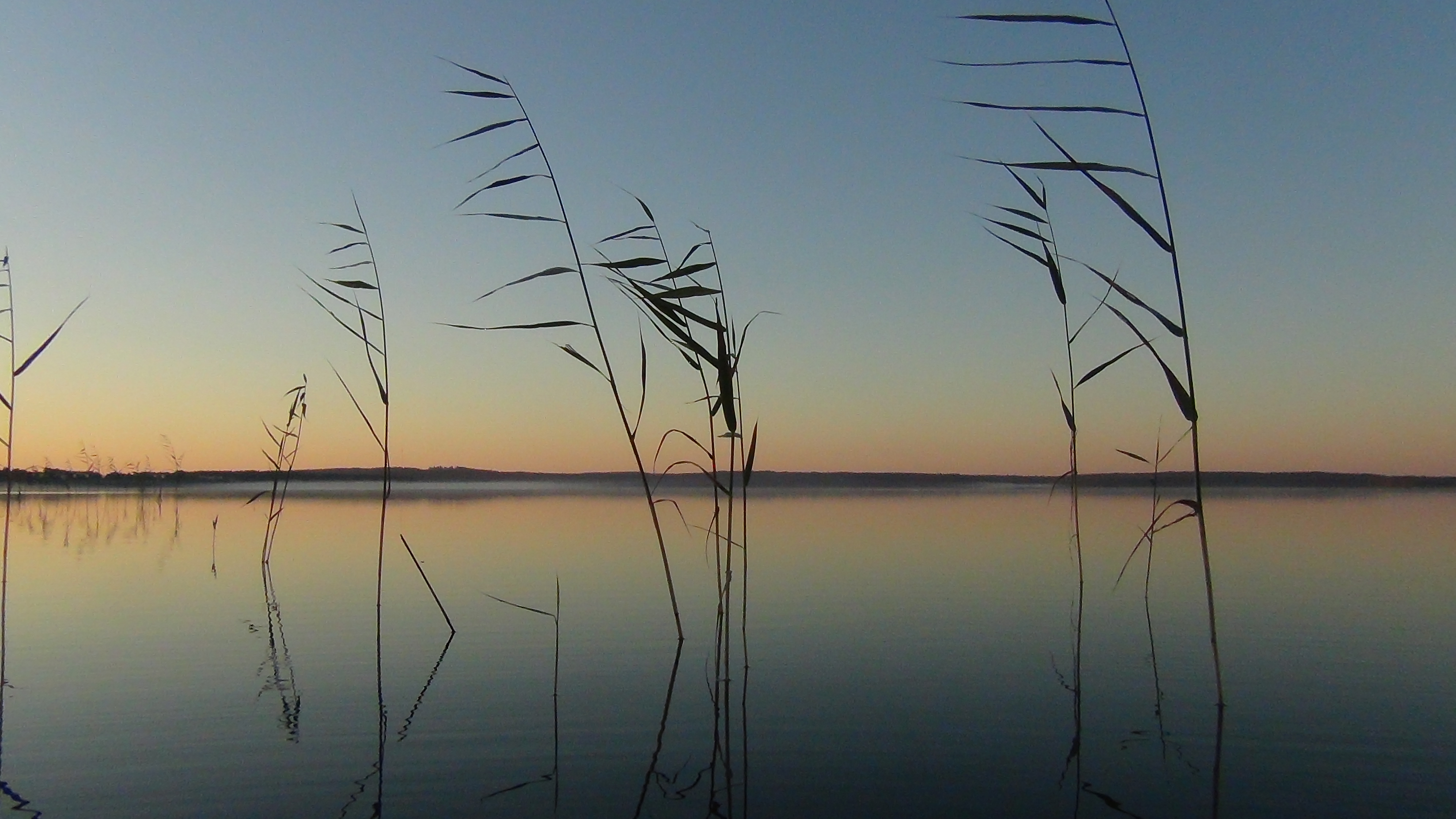 Dawn in August seen from the shore of lake Kuorinka.